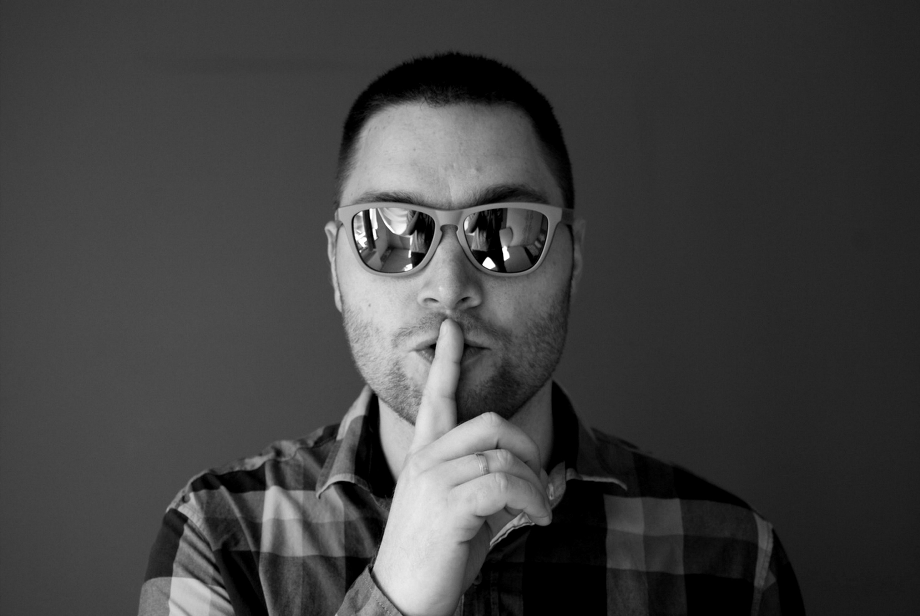 Pawel "Spinache" Grabowski